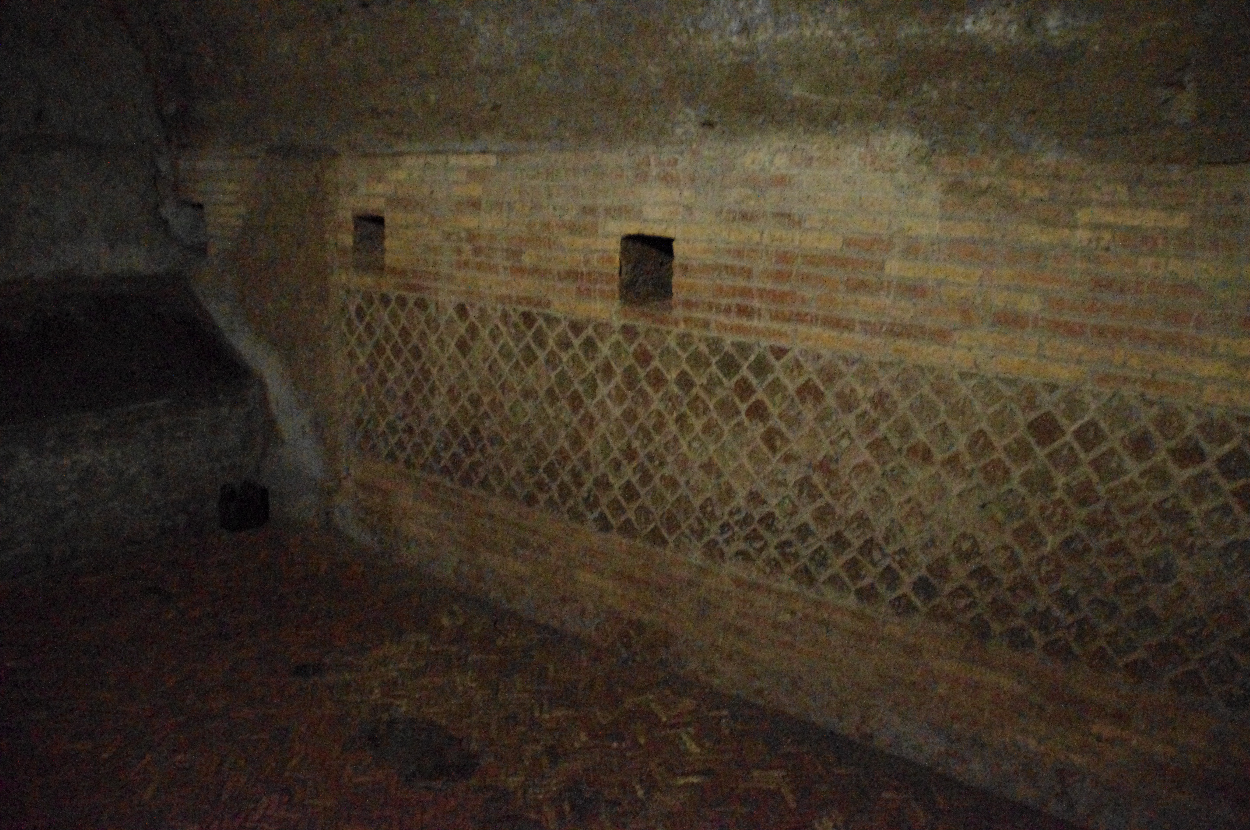 Antic lowest level of San Clemente in Rome. Identified as Moneta workshop by Filippo Coarelli